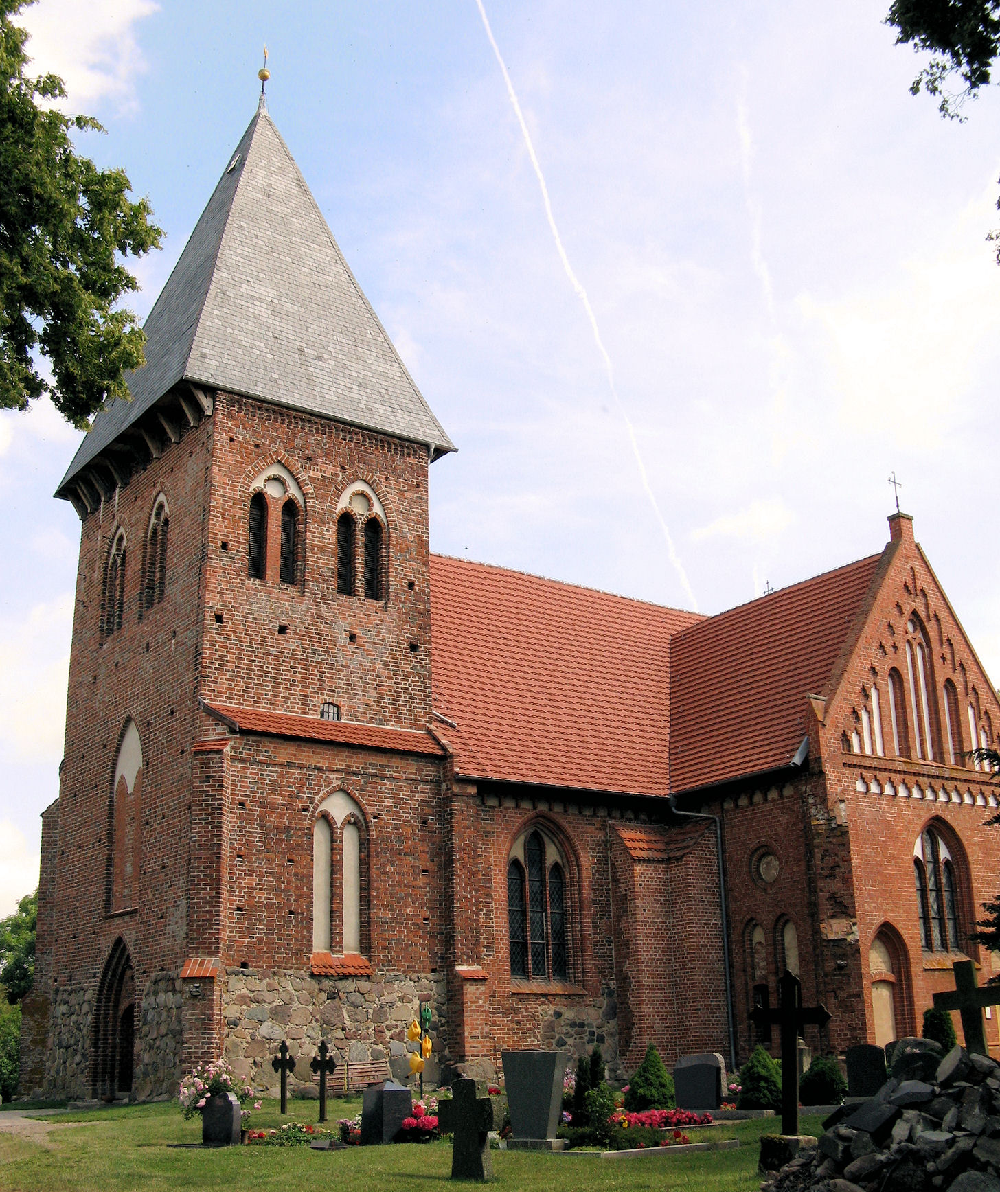 Church in Serrahn, disctrict Güstrow, Mecklenburg-Vorpommern, Germany